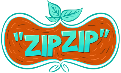 The logo for the French TV series, "ZIP ZIP".